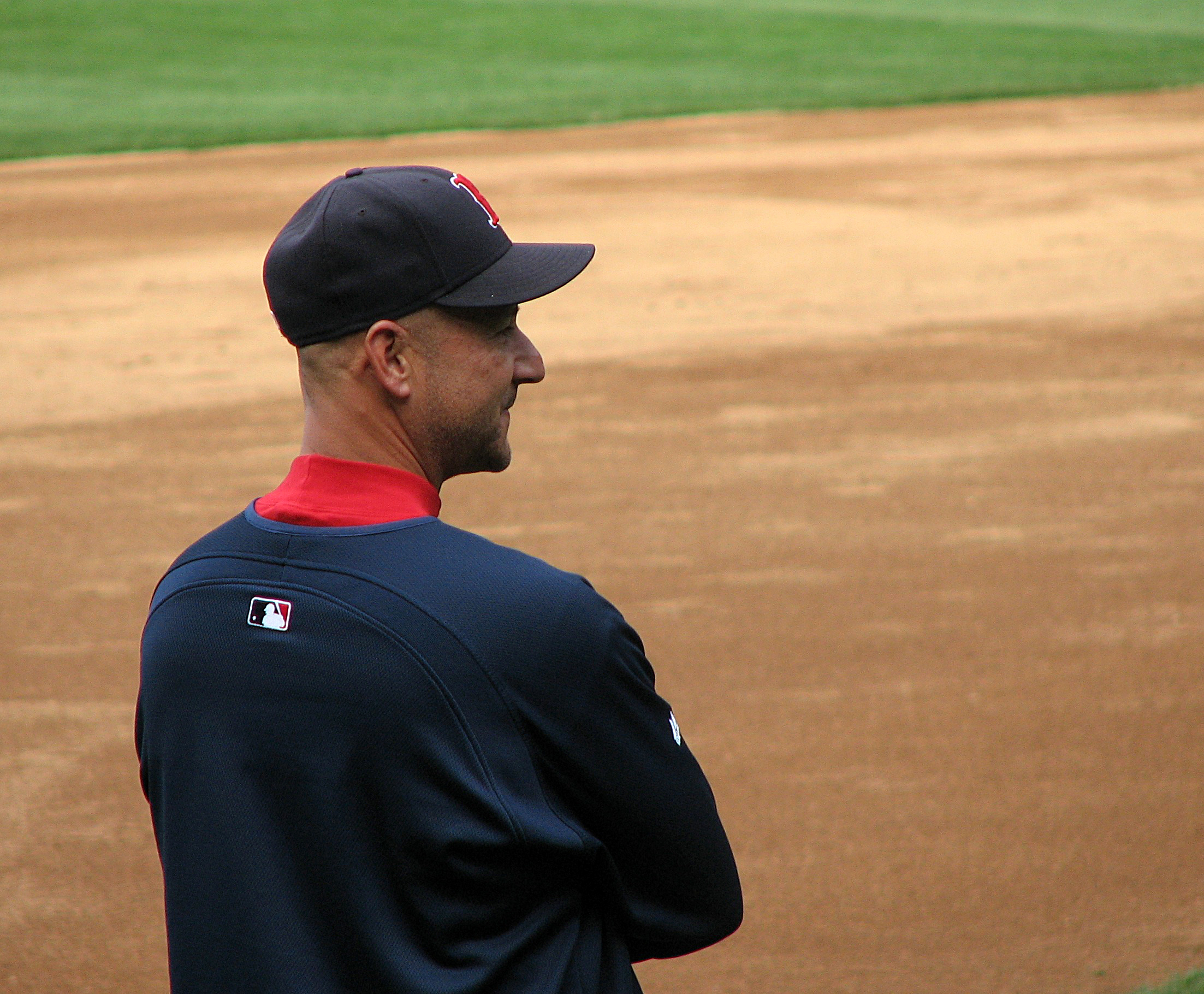 Boston Red Sox manager Terry "Tito" Francona at Safeco Field in Seattle, WA during the Red Sox's pre-game warm-up.